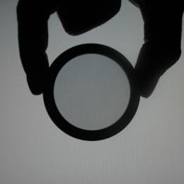 A polarizer in front of a flat screen monitor (the light from the flat screen is polarized). Continued in the pictures : Polariseur2.JPG, Polariseur3.JPG, ...